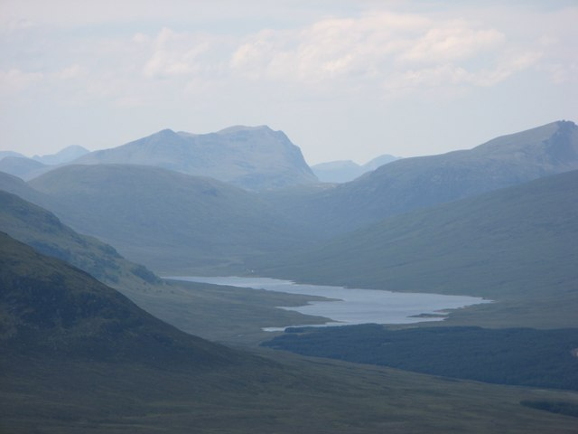 Loch a' Bhraoin. A high level loch near a deep fjord head glen - somehow left alone during the first round of hydroelectric projects, the loch now provides the water for a scheme in the Cuileag Gorge. There were originally plans to enlarge the loch with a dam, but as this is one of the few surviving large high lochs with a natural shoreline a smaller scale project was agreed. Slioch in the background.